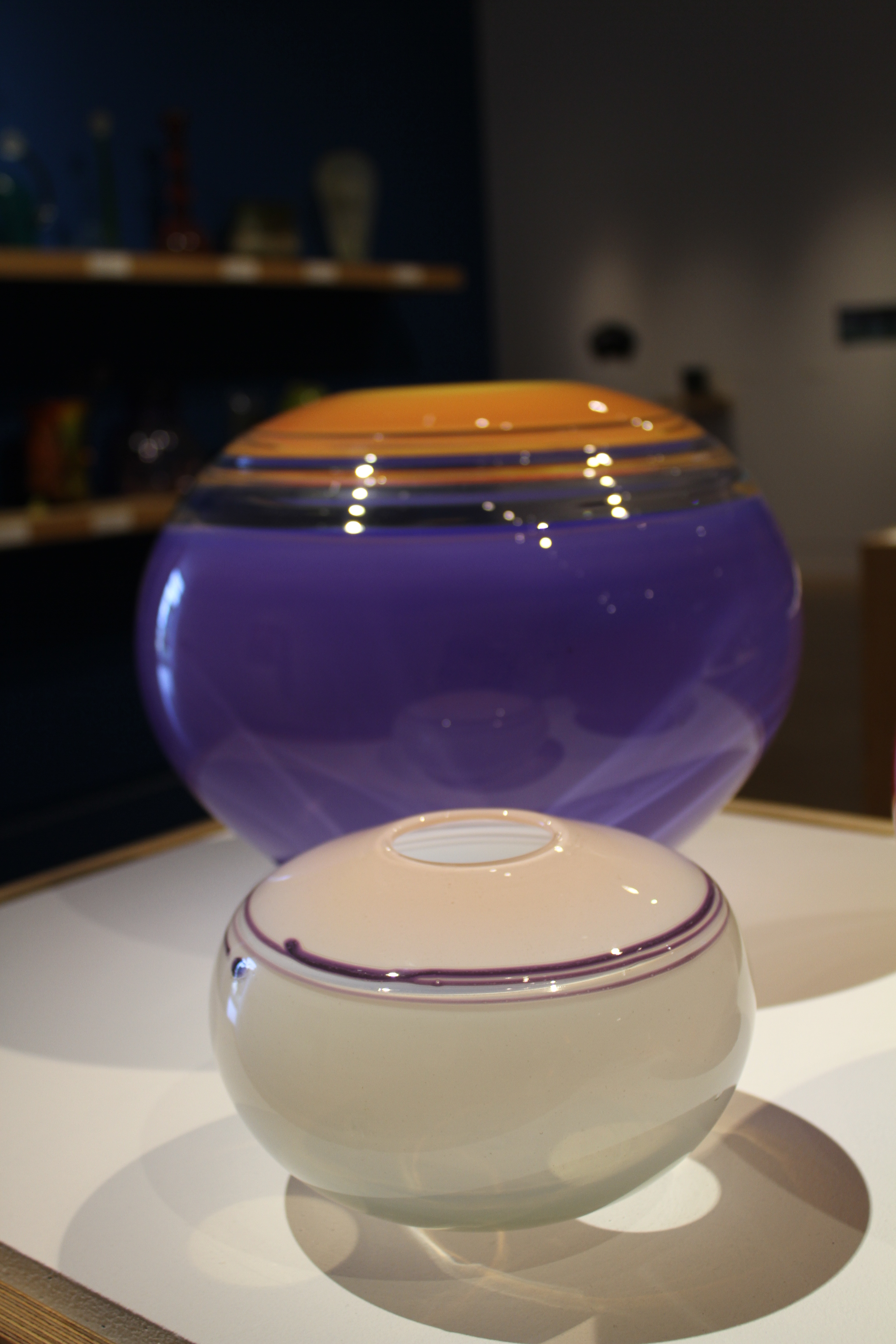 Sonja Blomdahl vase at The Tacoma Art Museum as part of The Paul Marioni Collection Show